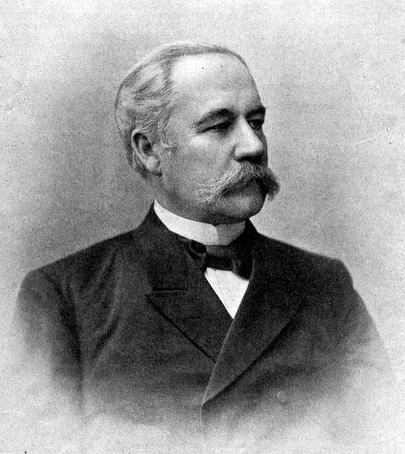 Wilhelm Odelberg (1844-1924), Swedish politician and industrialist.